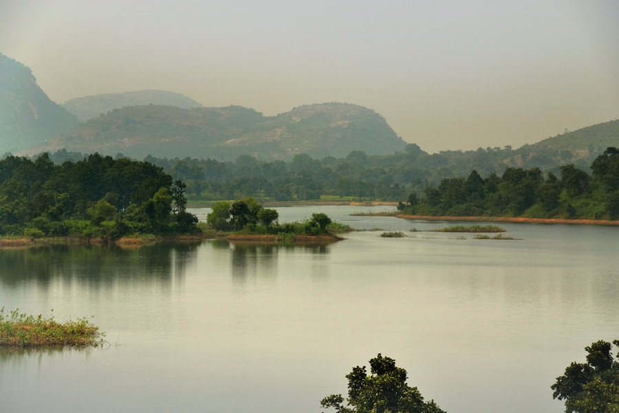 Murguma Dam